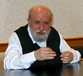 French writer Michel Butor, taken by myself just before his talk at Montclair State University (New Jersey) on April 26, 2006